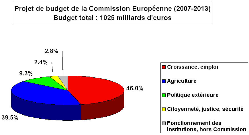 Graph made by Poppy in November 2005 (source : European Union).